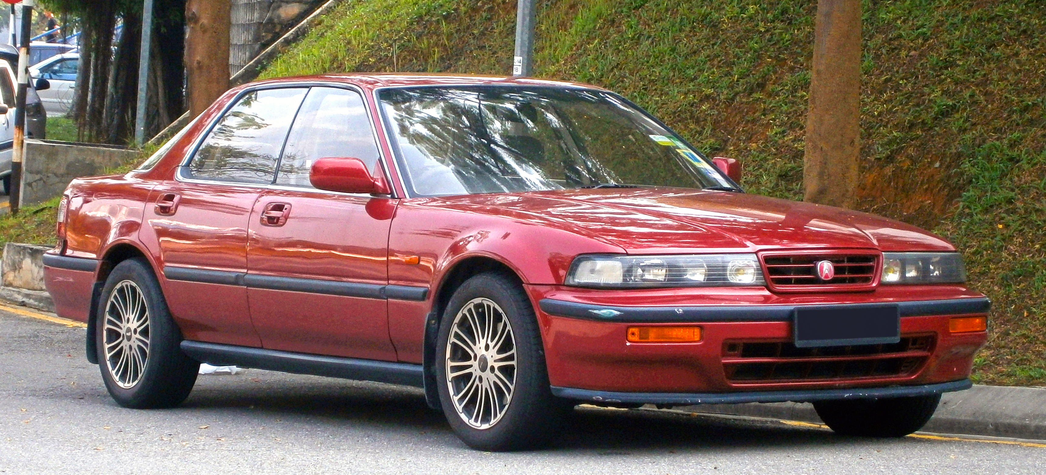 2000 Honda Vigor (modified) in Cyberjaya, Malaysia.